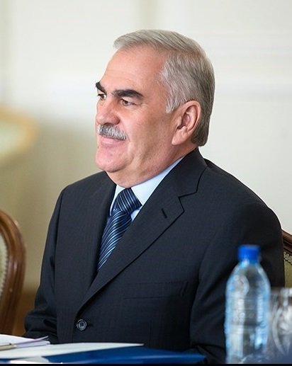 Vasif Talibov